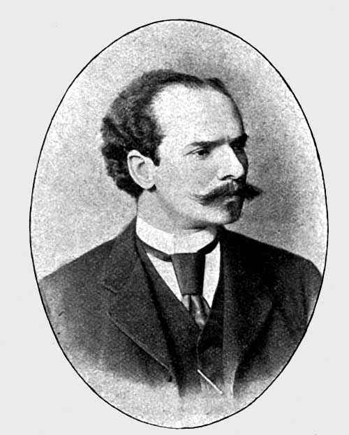 Russian-Italian painter, Alexander Rizzoni